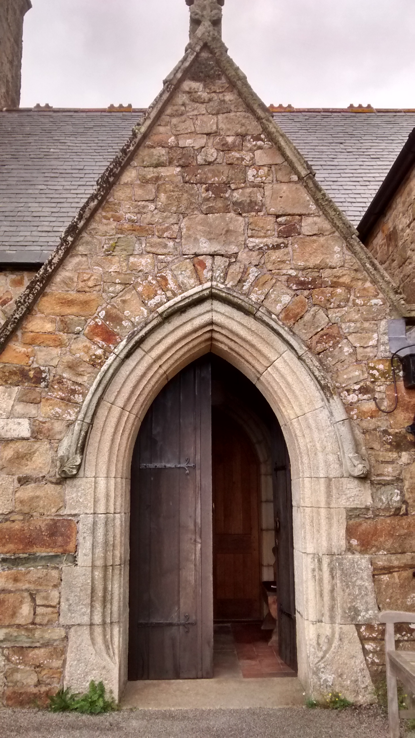 5th century Chi-Rho cross (above the door) on Phillack parish church, Cornwall